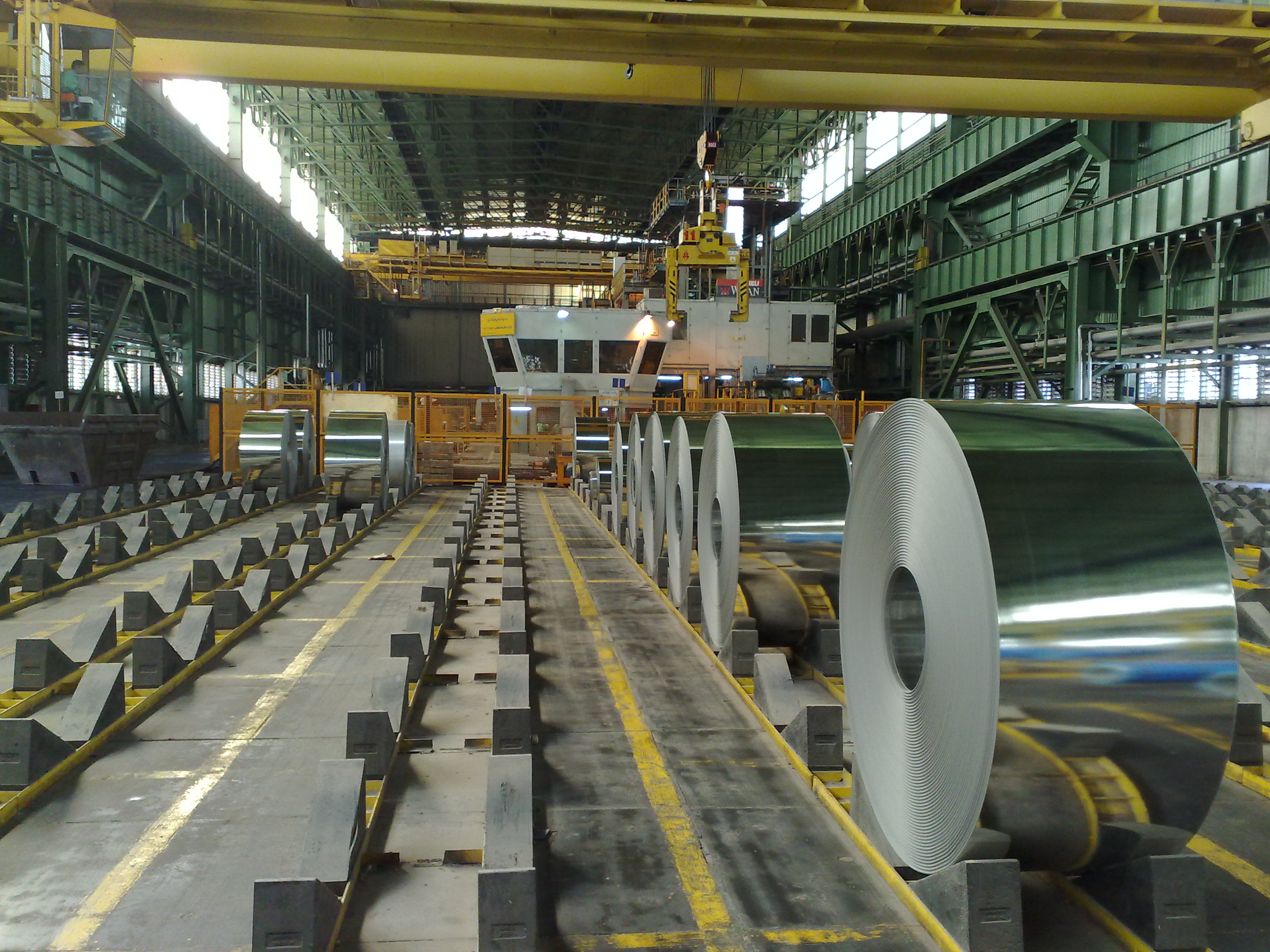 Foolad Mobarakeh Steel Mill. Isfahan.